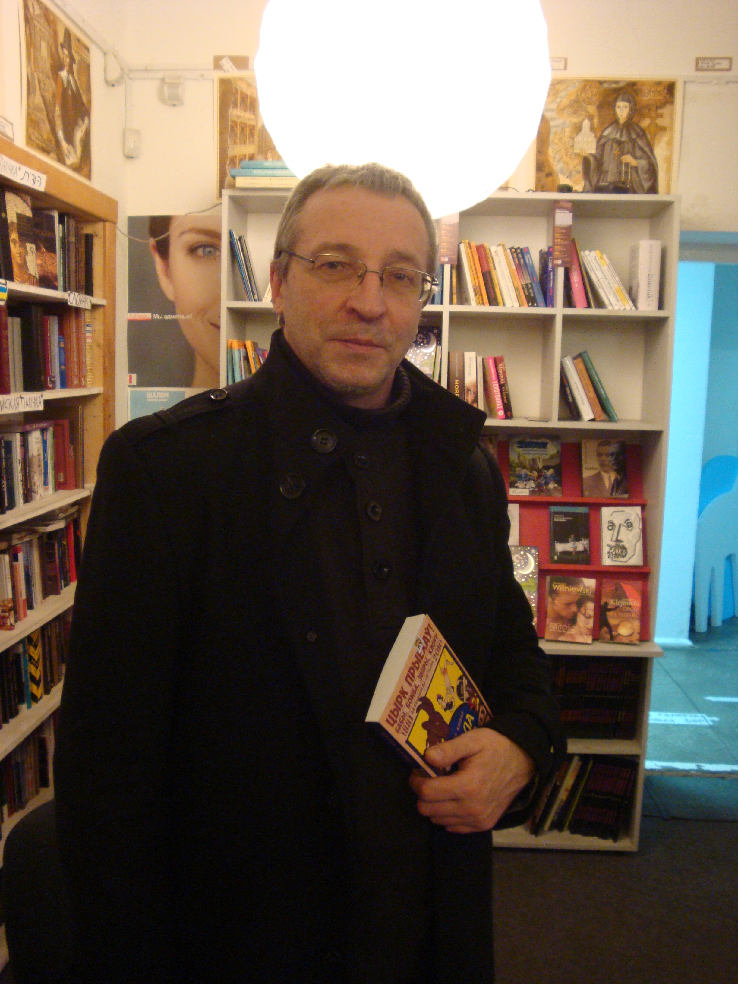 Arthur Klinov (born 1965 AD) - a belorussian photographer, desighner. Minsk city (Belarus), 2014 AD